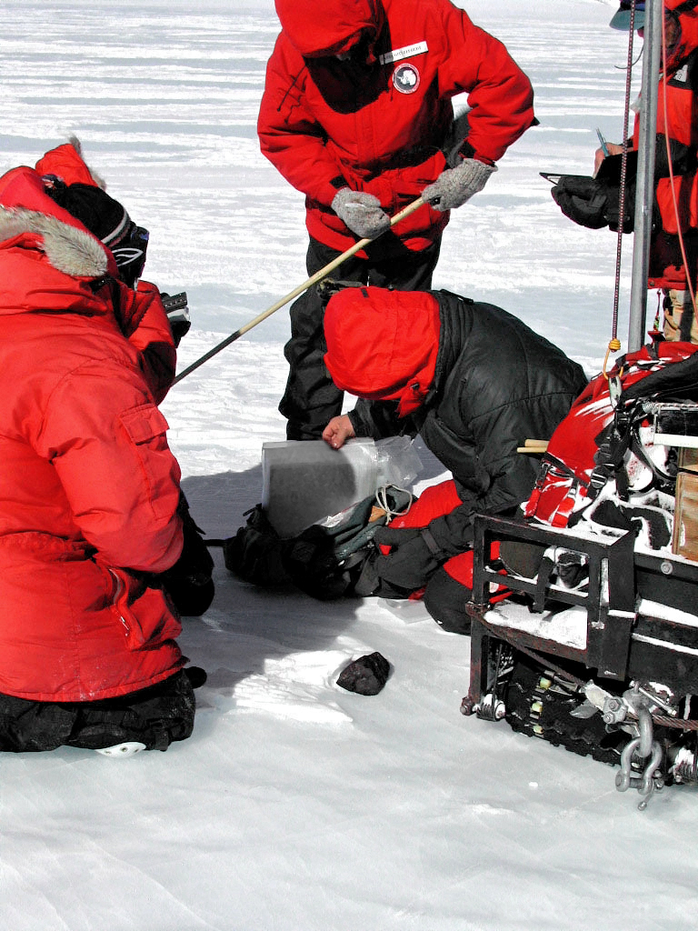 Recovery of a meteorite in Antarctica by members of the U.S. Antarctic Search for Meteorites (ANSMET) expedition. The meteorite is picked up with sterile tongs and put into the clean Teflon bag. The recovery site is marked, temporarily, by a bamboo flag pole with the meteorite's field number. Relevant data is logged into a notebook, including latitude and longitude coordinates acquired by the GPS unit onboard the Snowmobile.